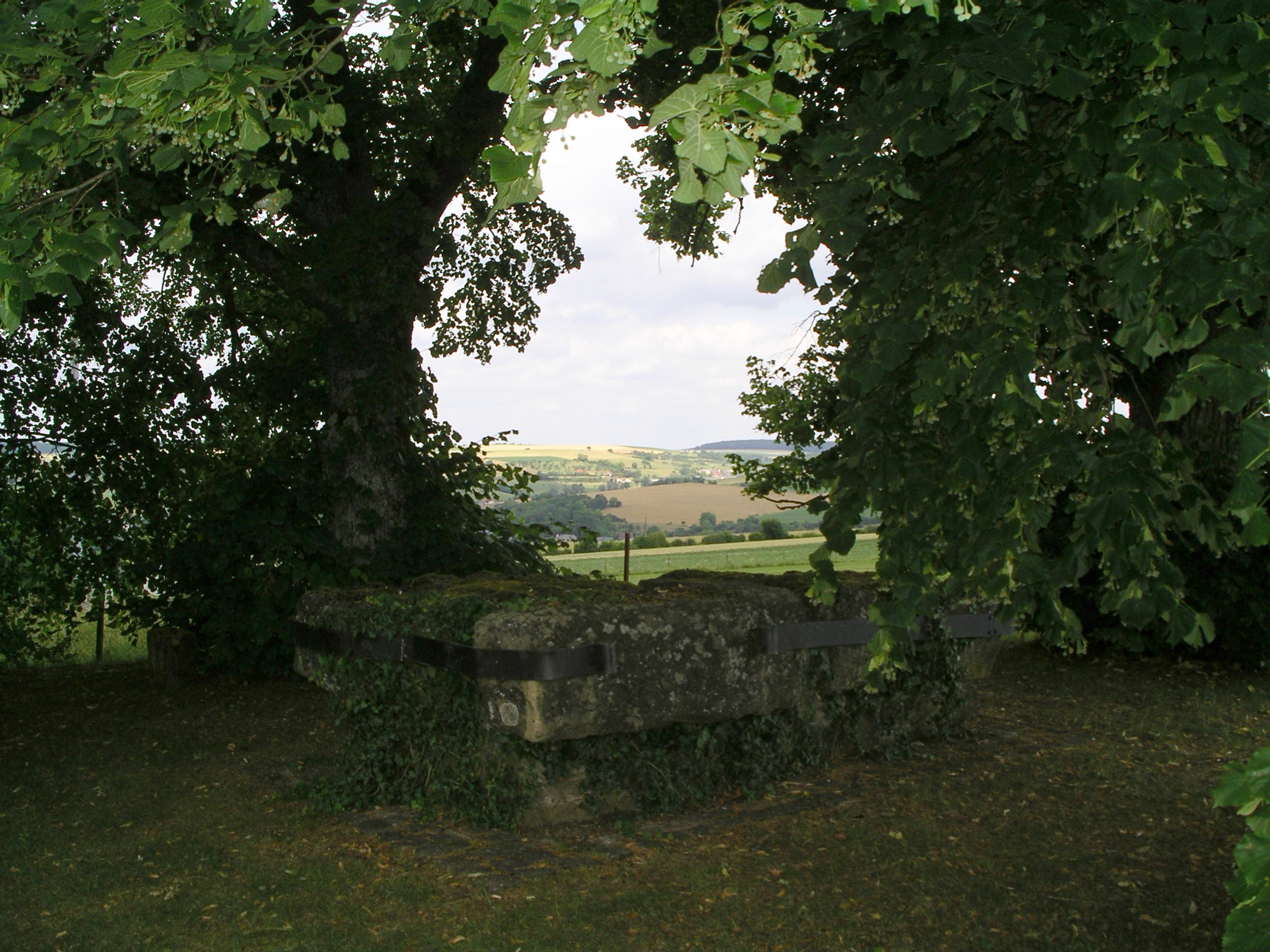 Manternach, Luxembourg